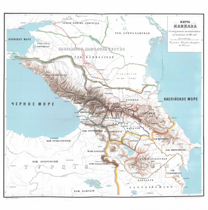 1866 Map showing the whole Caucasus.